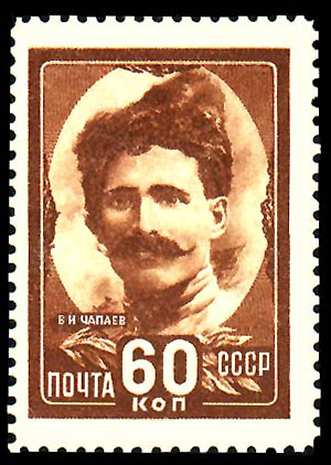 Postage stamp of the Soviet Union, Vasily Chapayev (1887–1919), 1948